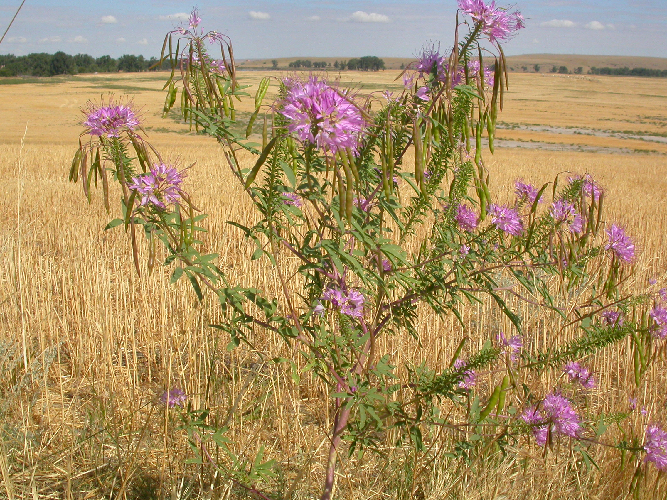 The stipitate fruits distinguish Capparaceae from most Brassicaceae.